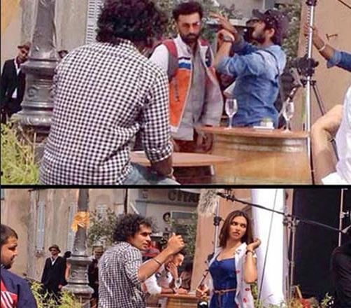 Imtiaz Ali filming Tamasha with Ranbir Kapoor and Deepika Padukone